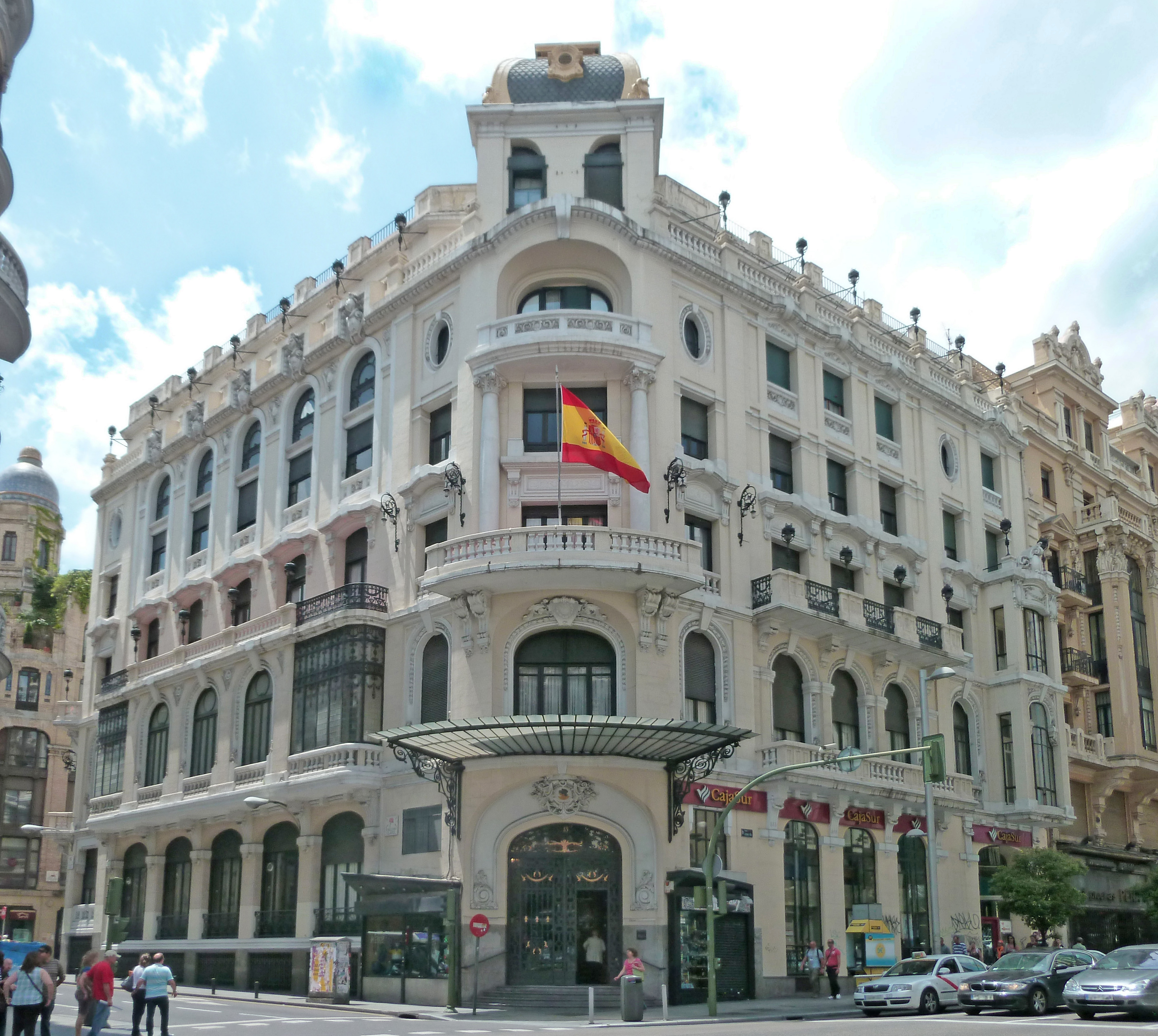 Façade of the Cultural Center of the Armies (former Servicemen's Casino) in Madrid (Spain).